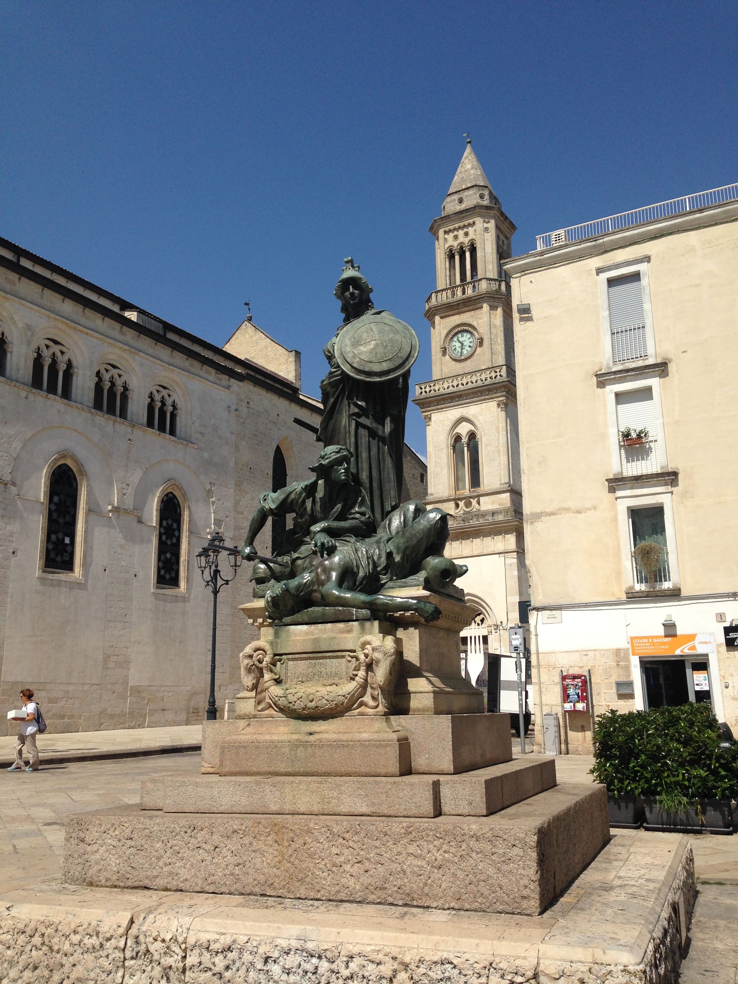 Monumento ai martiri del 1799 - Monument to the martyrs of Altamura Revolution (1799), erected during the celebrations of the first centenary of the revolution (1899) and located in piazza Duomo (Altamura)